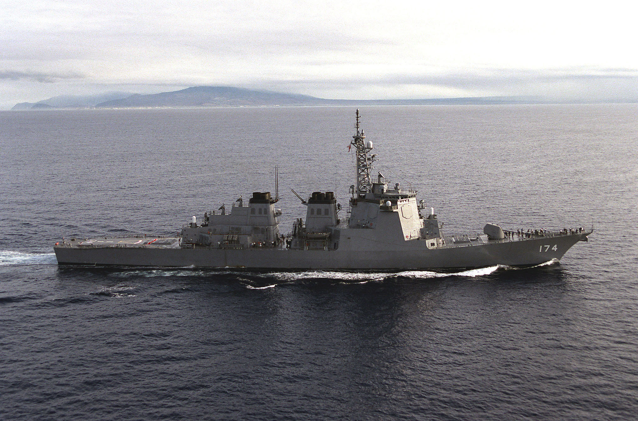 Starboard beam view of the Japanese Maritime Self Defense Force ship JDS KIRISHIMA (DDG-174), a KONGO class destroyer, as it returns to Hawaii at the end of exercise RIMPAC '98.